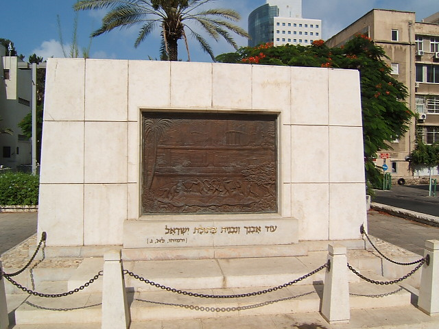 "I will build thee, and thou shalt be built, oh Virgin of Israel" (1957) - Tel Aviv foundations memorial in Rotchild avenue. relif by Aharon Priver